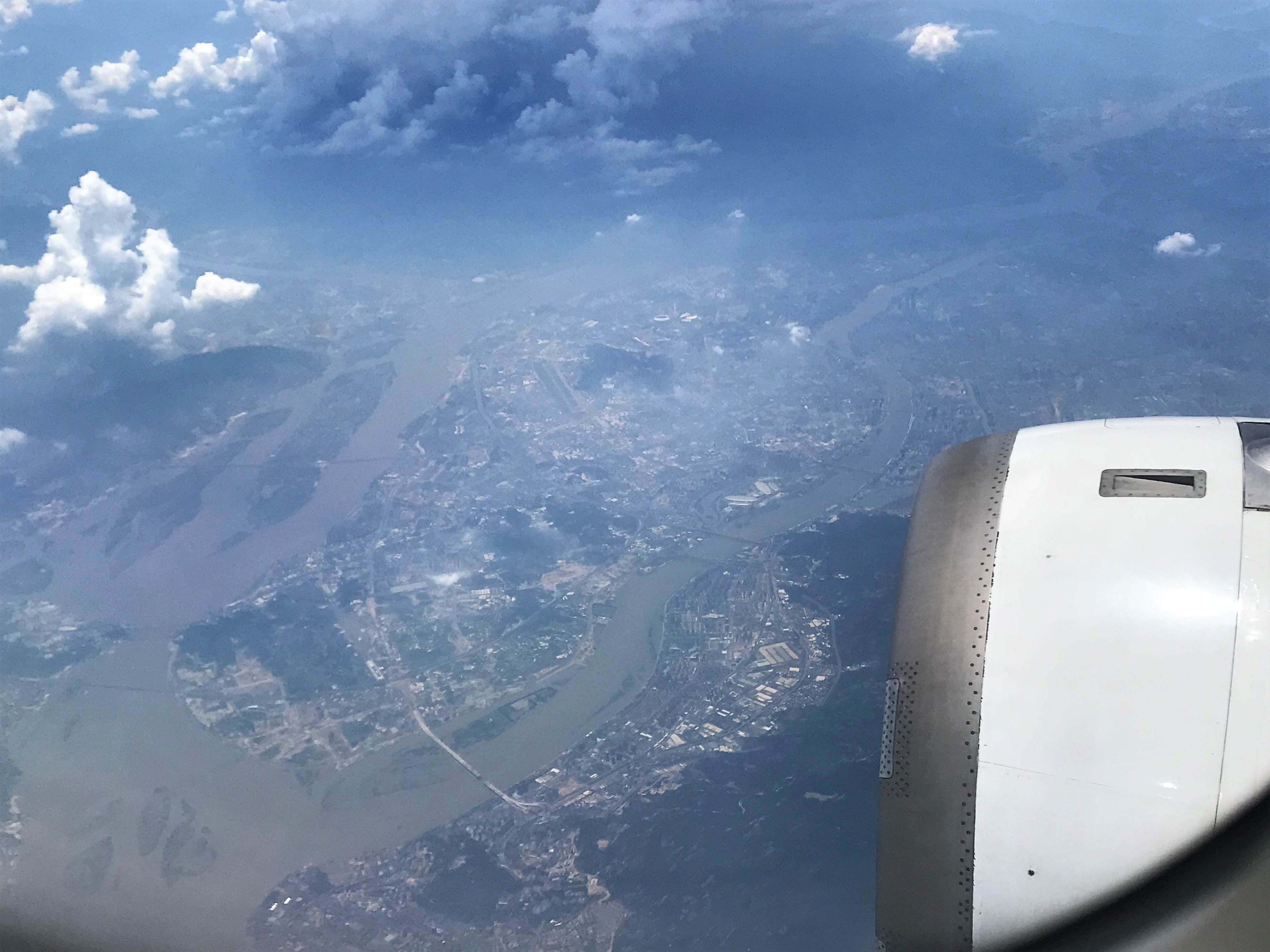 201806 Cangshan District, Fuzhou